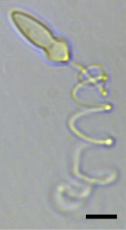 Light micrograph of an extruded nematocyst of Polykrikos kofoidii. Scale bar = 10 microns. This image is lightly edited to remove distracting panel label from Panel L of Figure 1 from Hoppenrath et al. 2009, Molecular phylogeny of ocelloid-bearing dinoflagellates (Warnowiaceae) as inferred from SSU and LSU rDNA sequences, BMC Evolutionary Biology 9:116.